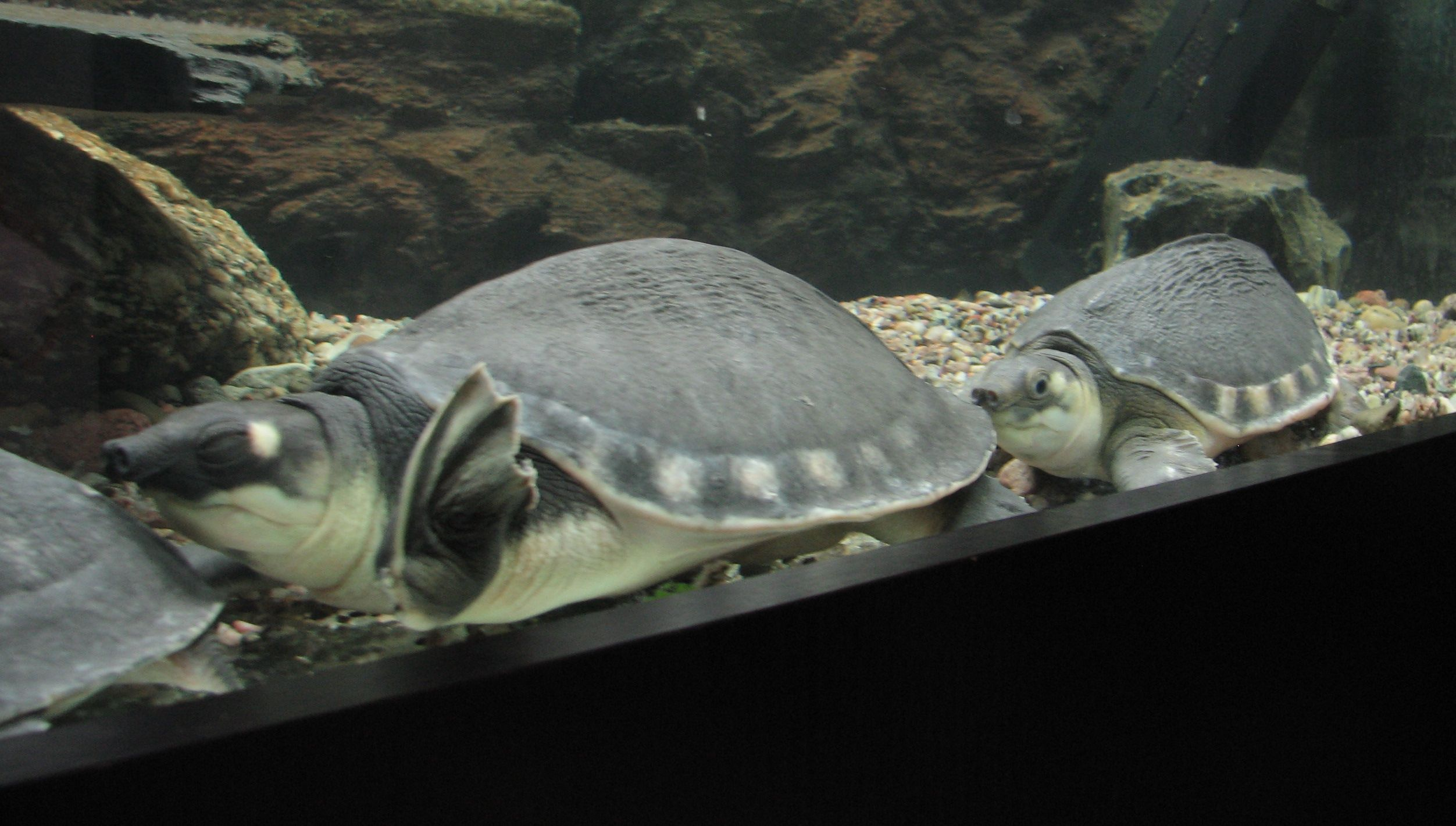 Pig-snouted River (Carettochelys insculpta) in aquarium of ZOO Brno, Czech Republic